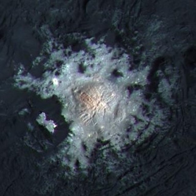 PIA20355: Center of Occator Crater (Enhanced Color) - CROP (NOTE: Original image (and/or "File:PIA20355-Ceres-DwarfPlanet-OccatorCrater-Center-201602.jpg") CROPPED and ENLARGED to 640x640 - from original 300x300 crop) The bright central spots near the center of Occator Crater are shown in enhanced color in this view from NASA's Dawn spacecraft. Such views can be used to highlight subtle color differences on Ceres' surface. Lower resolution color data have been overlaid onto a higher resolution view (see PIA20350 and PIA20350-fig1) of the crater. The view was produced by combining the highest resolution images of Occator obtained in February 2016 (at image scales of 35 meters, or 115 feet, per pixel) with color images obtained in September 2015 (at image scales of 135 meters, or about 440 feet, per pixel). The three images used to produce the color were taken using spectral filters centered at 438, 550 and 965 nanometers (the latter being slightly beyond the range of human vision, in the near-infrared). The crater measures 57 miles (92 kilometers) across and 2.5 miles (4 kilometers) deep. Dawn's close-up view reveals a dome in a smooth-walled pit in the bright center of the crater. Numerous linear features and fractures crisscross the top and flanks of this dome. Dawn's mission is managed by JPL for NASA's Science Mission Directorate in Washington. Dawn is a project of the directorate's Discovery Program, managed by NASA's Marshall Space Flight Center in Huntsville, Alabama. UCLA is responsible for overall Dawn mission science. Orbital ATK, Inc., in Dulles, Virginia, designed and built the spacecraft. The German Aerospace Center, the Max Planck Institute for Solar System Research, the Italian Space Agency and the Italian National Astrophysical Institute are international partners on the mission team. For a complete list of acknowledgments, For more information about the Dawn mission, visit